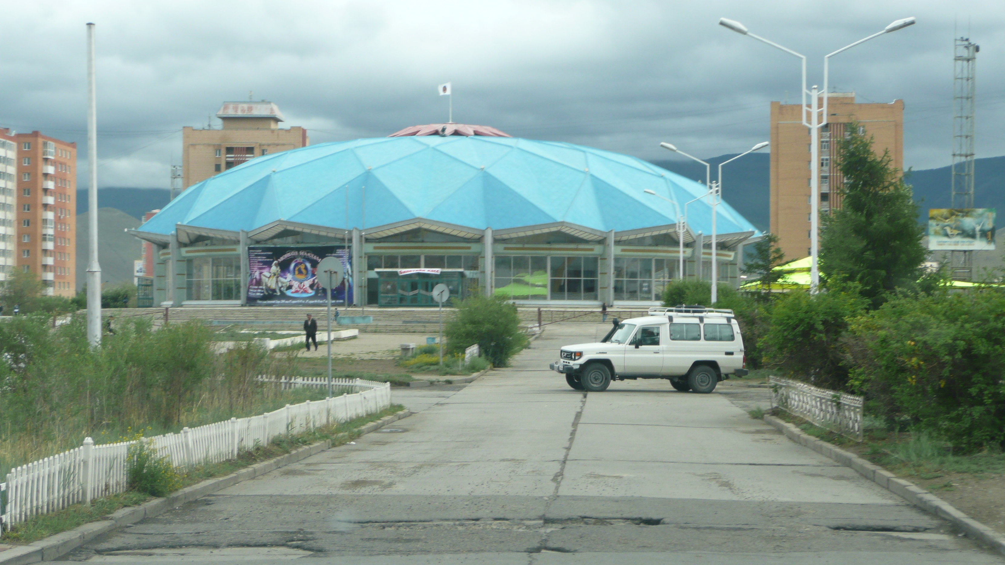 Circus in Ulan Bator